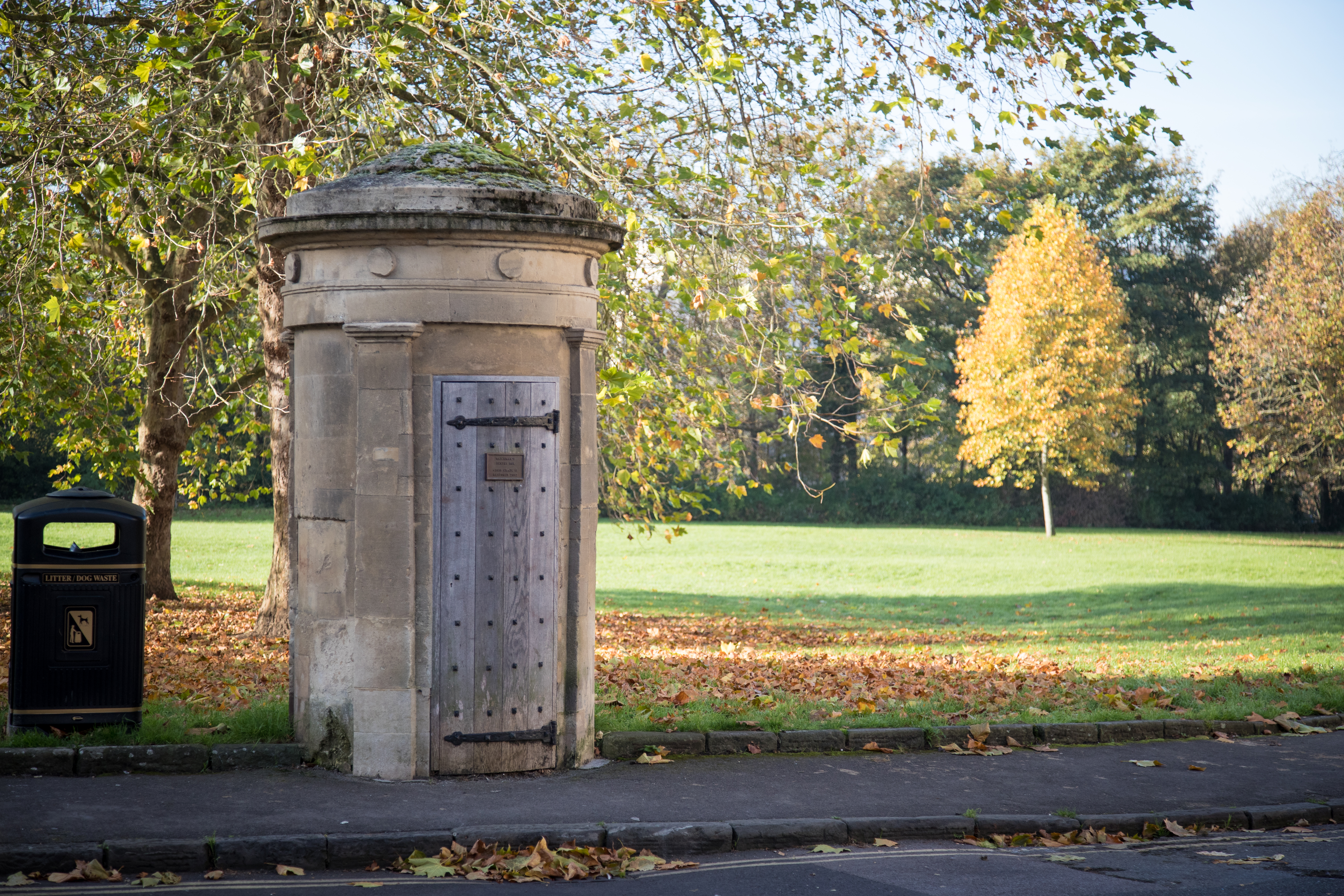 Georgian Watchman's Box of about 1810, Norfolk Crescent, Bath. This grade II* listed structure is a very rare survival of its type, showing a high level of architectural finish. It was restored in the 1890s, and again in 2012. Wikidata has entry Q17532615 with data related to this item.